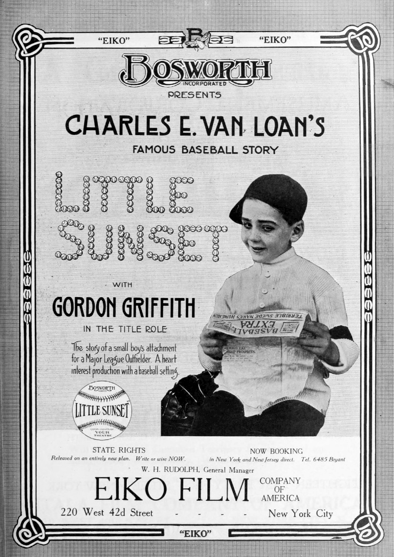 Ad for the 1915 film Little Sunset from Motion Picture World.